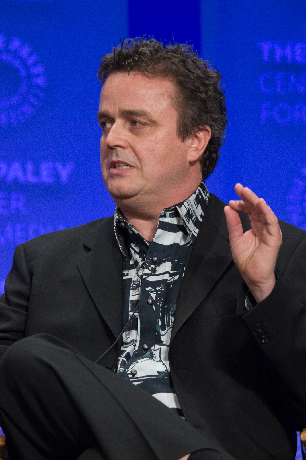 Sean Callery at the PaleyFest 2015 - An Evening with the Cast and Creative Team of Homeland